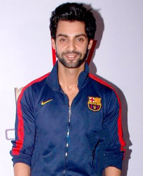 Karan Wahi at the launch of Telly House calendar